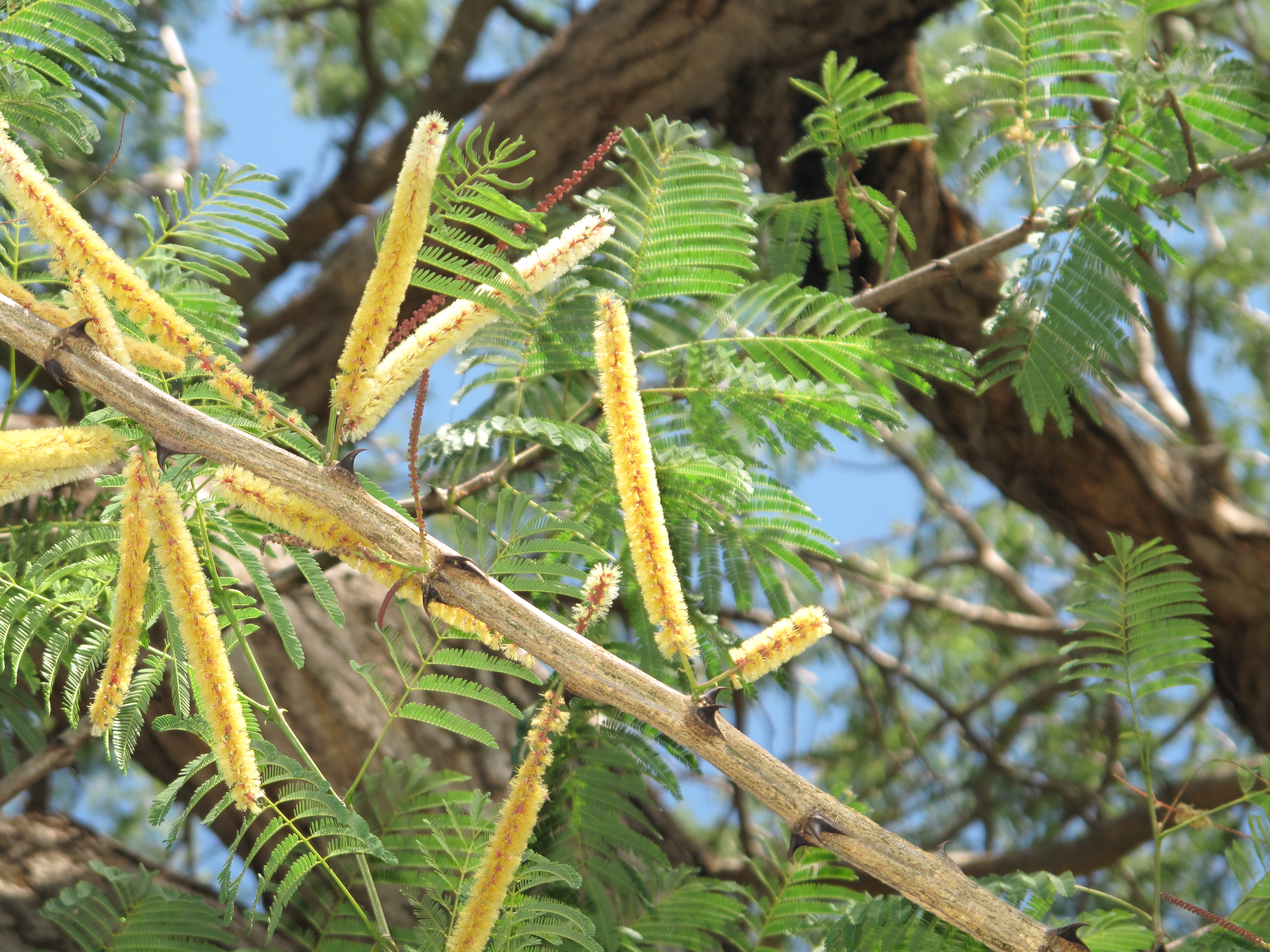 flowers of Acacia catechu